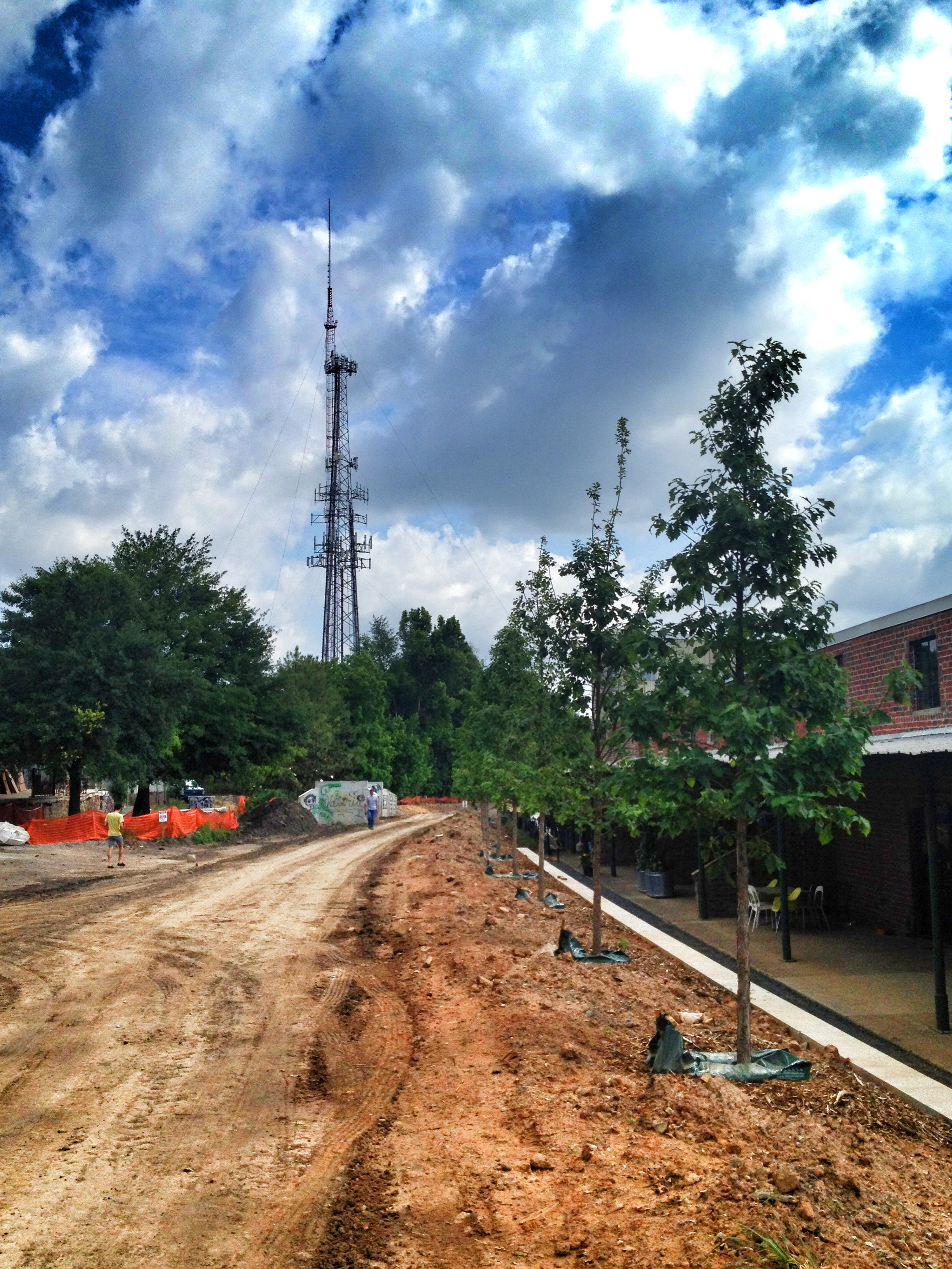 Eastside Trail under construction, BeltLine, Old Fourth Ward, Atlanta